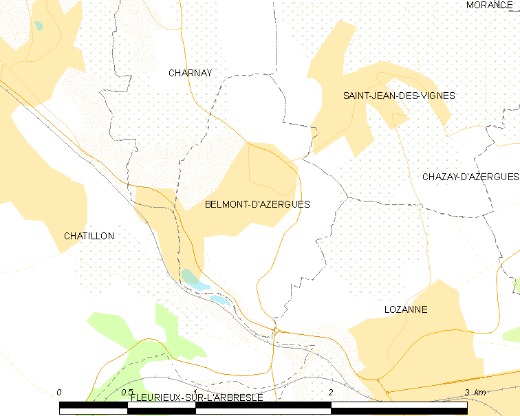 Map of French municipality